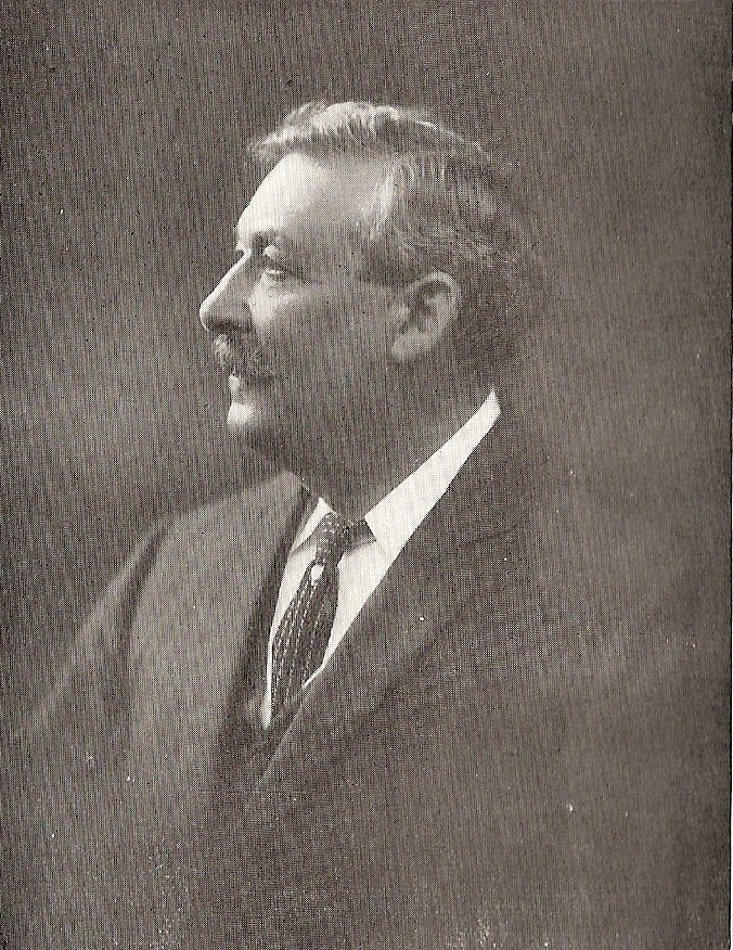 From a photograph taken in c. 1900